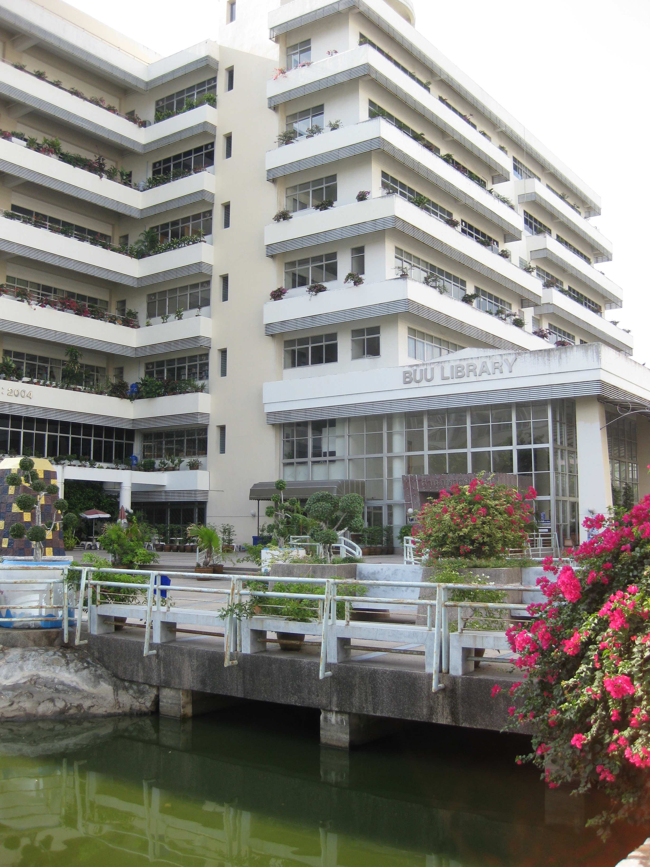 Library at Burapha University, Thailand